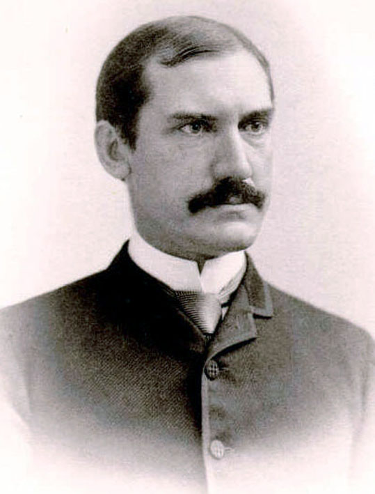 Christopher A. Bergen, US Representative from New Jersey